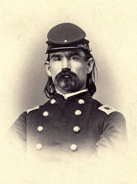 Image of Colonel William F. Cloud, Union Soldier, US Civil War